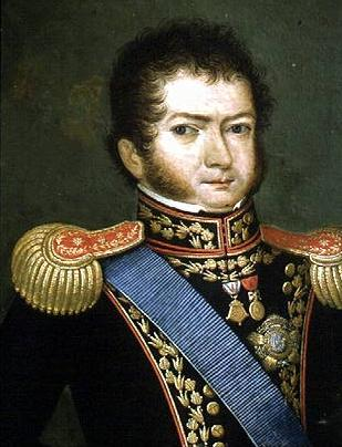 Detail of portrait